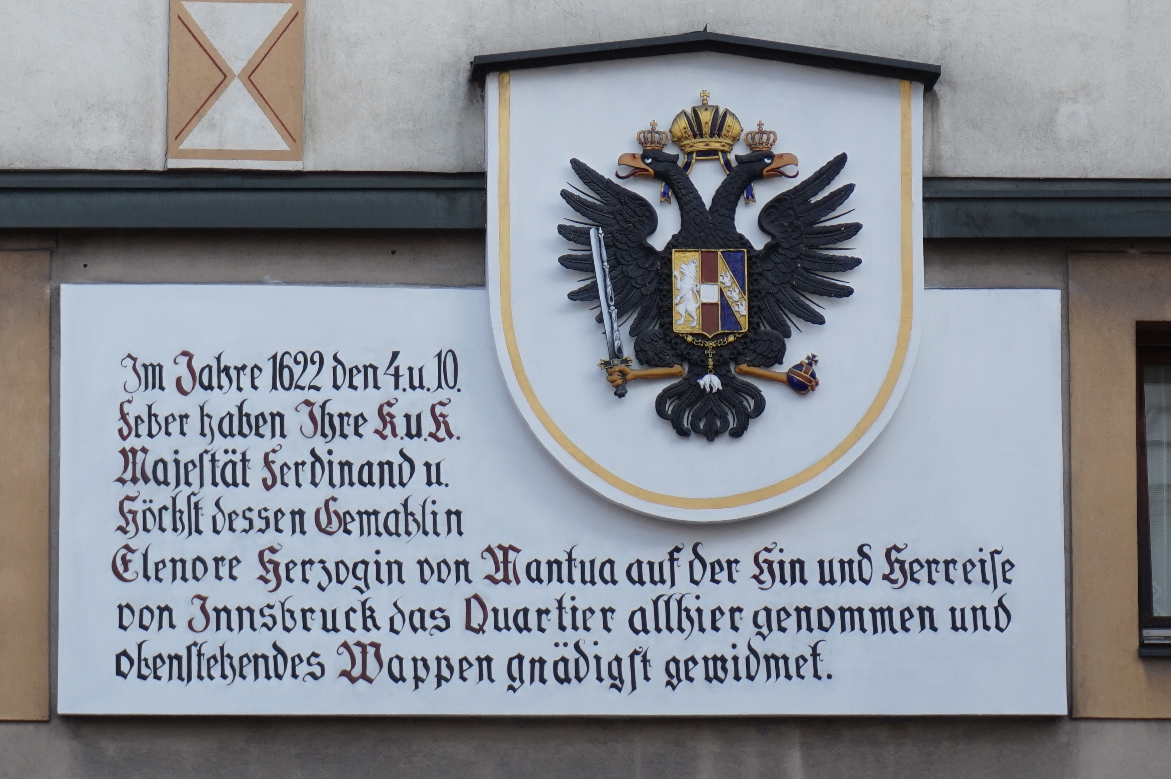 This emblem at the hotel "Alte Post" in Wörgl (Tyrol, Austria) remembers the accommodation of the emperor Ferdinand II. and his wife Eleonora on 4th and 10th February 1622.